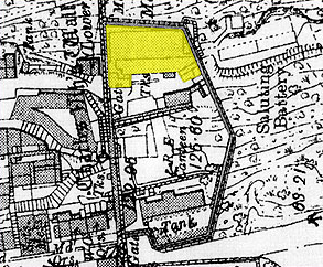 Section of 1908 map of Gibraltar demonstrating the Flat Bastion, with the Flat Bastion Magazine highlighted in yellow.